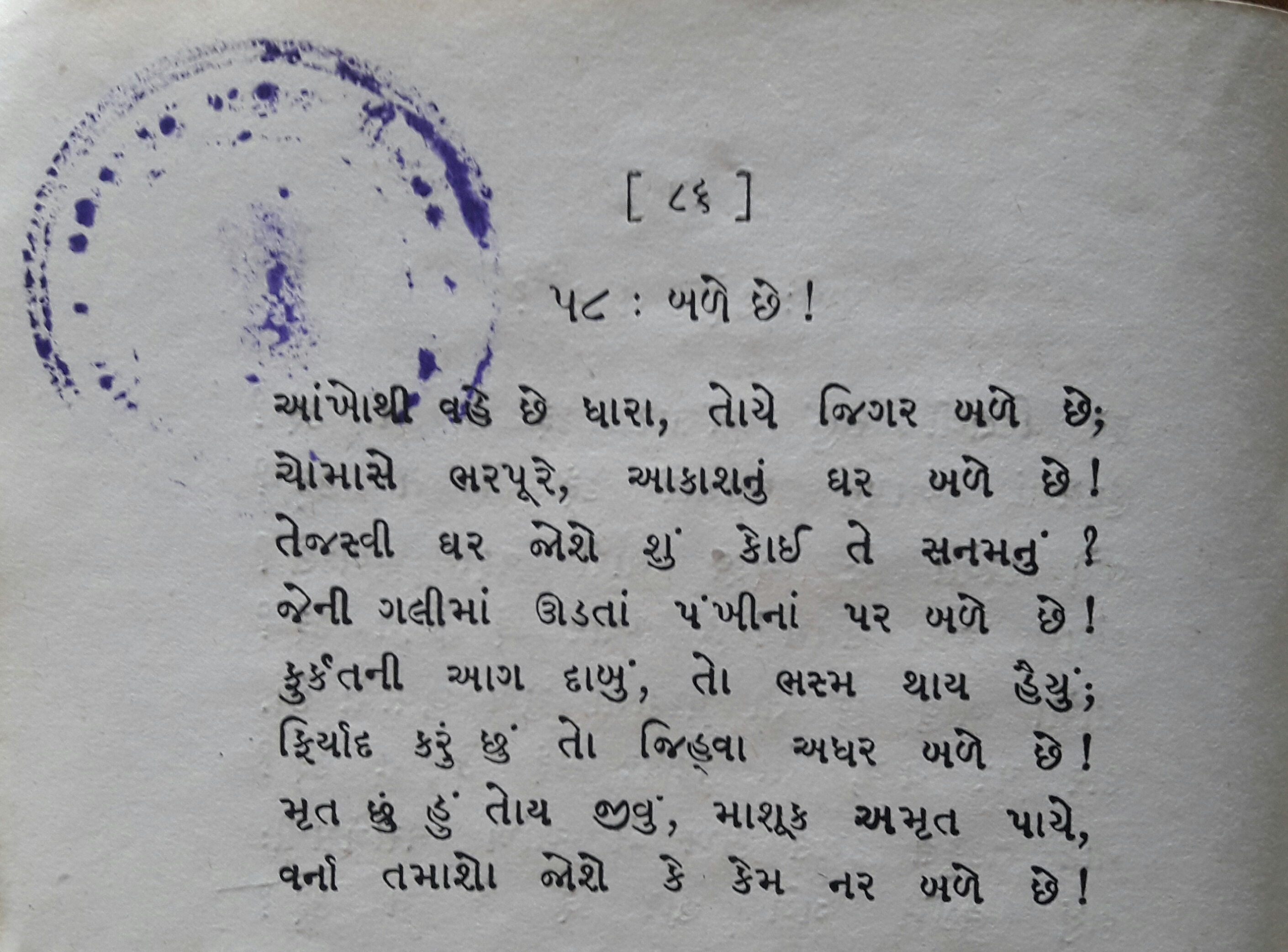 Aankho Thi Vahe Chhe Dhara, a Ghazal poem written by Indian poet Amrit Keshav Nayak (1877-1907). The poem is printed in the book (p. 86) "Gujarat Ni Ghazalo" (1943) edited by Krishnalal Jhaveri.